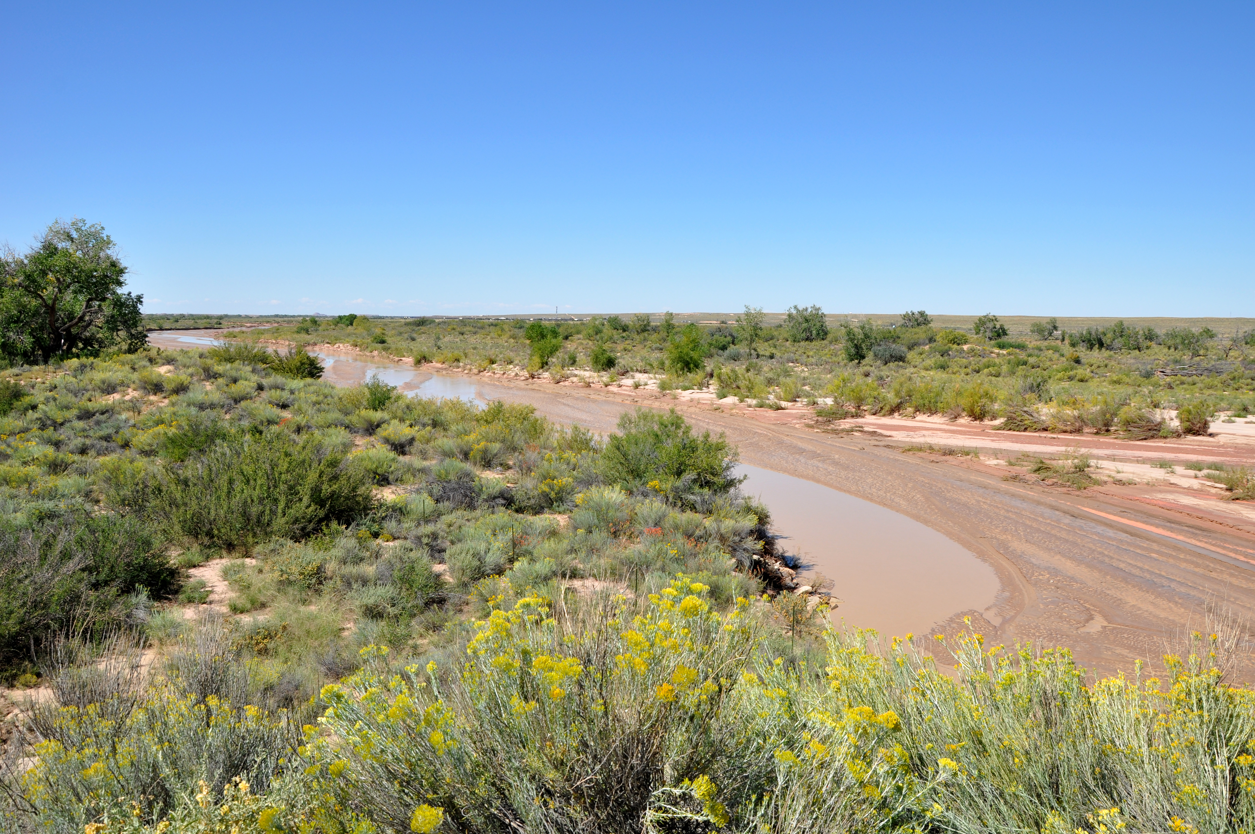 The Puerco River in Petrified Forest National Park, in northeastern Arizona, United States. View is downstream from the highway bridge near Puerco Pueblo.